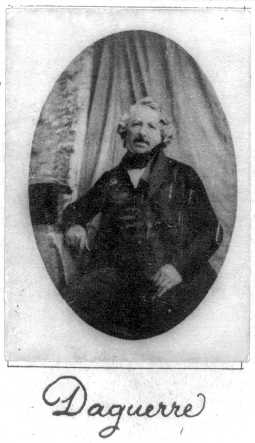 The French Louis Daguerre (born November 18, 1787 or 1789, died July 10 or July 12, 1851) was a painter, pioneer of photography and inventor of the daguerreotype.